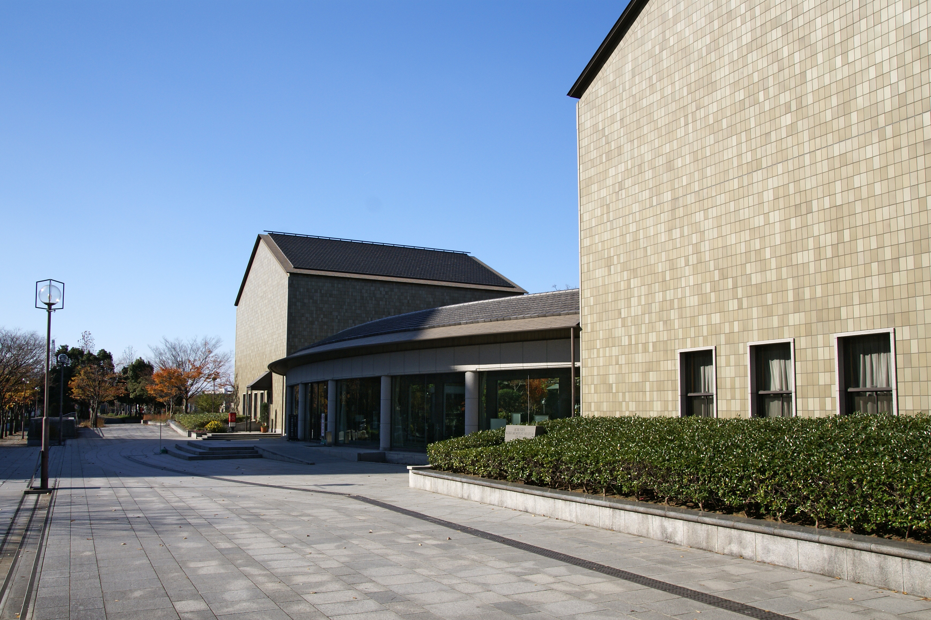 Kobe City Koiso Memorial Museum of Art in Rokko Island, Kobe, Hyogo prefecture, Japan